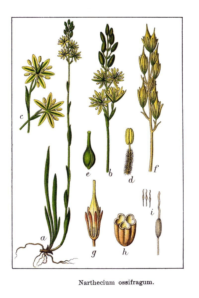 Narthecium ossifragum (L.) Huds. Original Description Beinbrech, Narthecium ossifragum clean version of Image:Narthecium ossifragum Sturm41.jpg cleaning is my own work